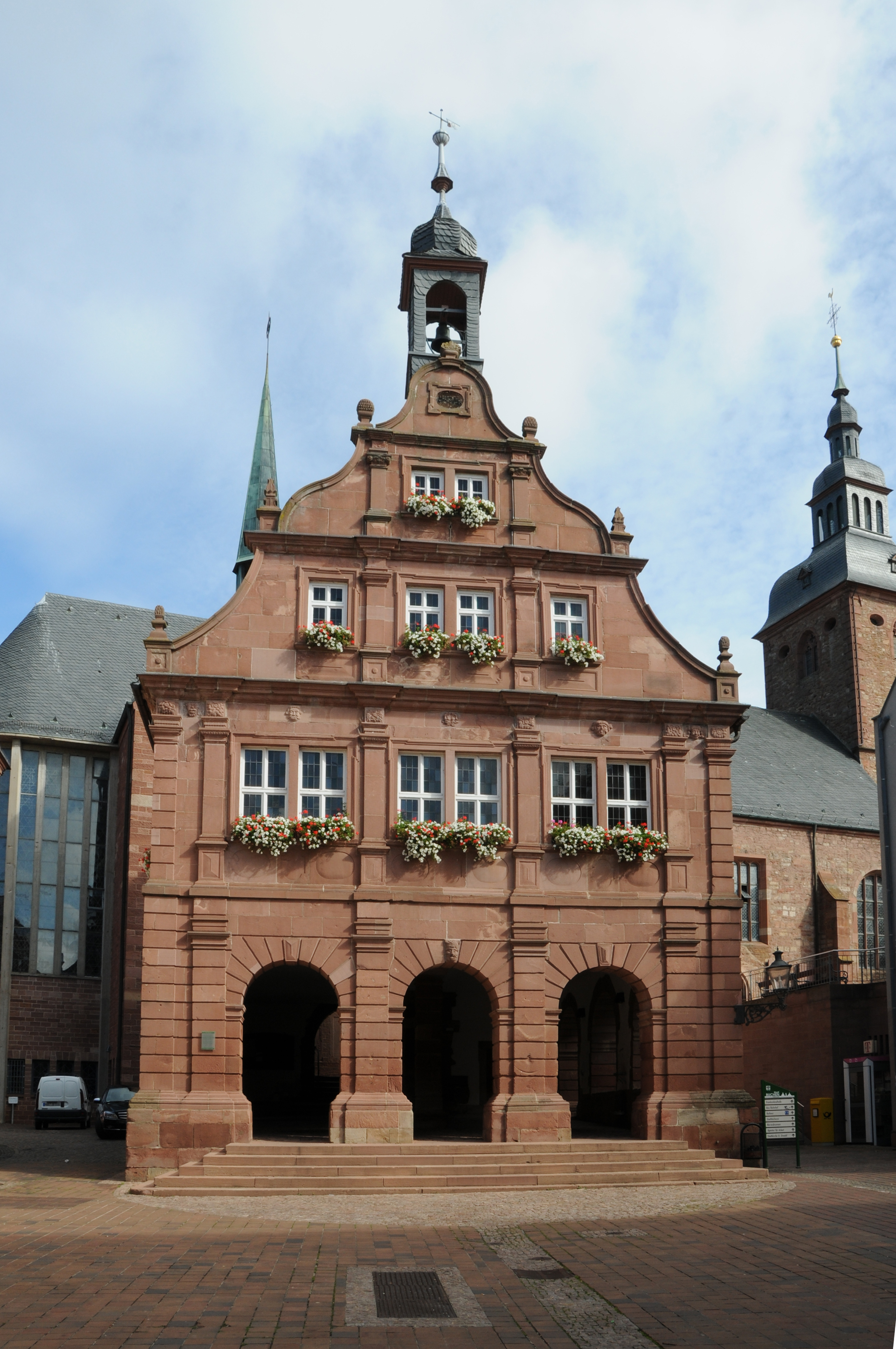 Old town hall, Buchen (Odenwald), Germany. In the background cath. church